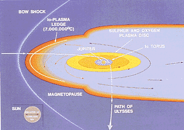 The trajectory of Ulysses spacecraft through the magnetosphere of Jupiter in 1992.